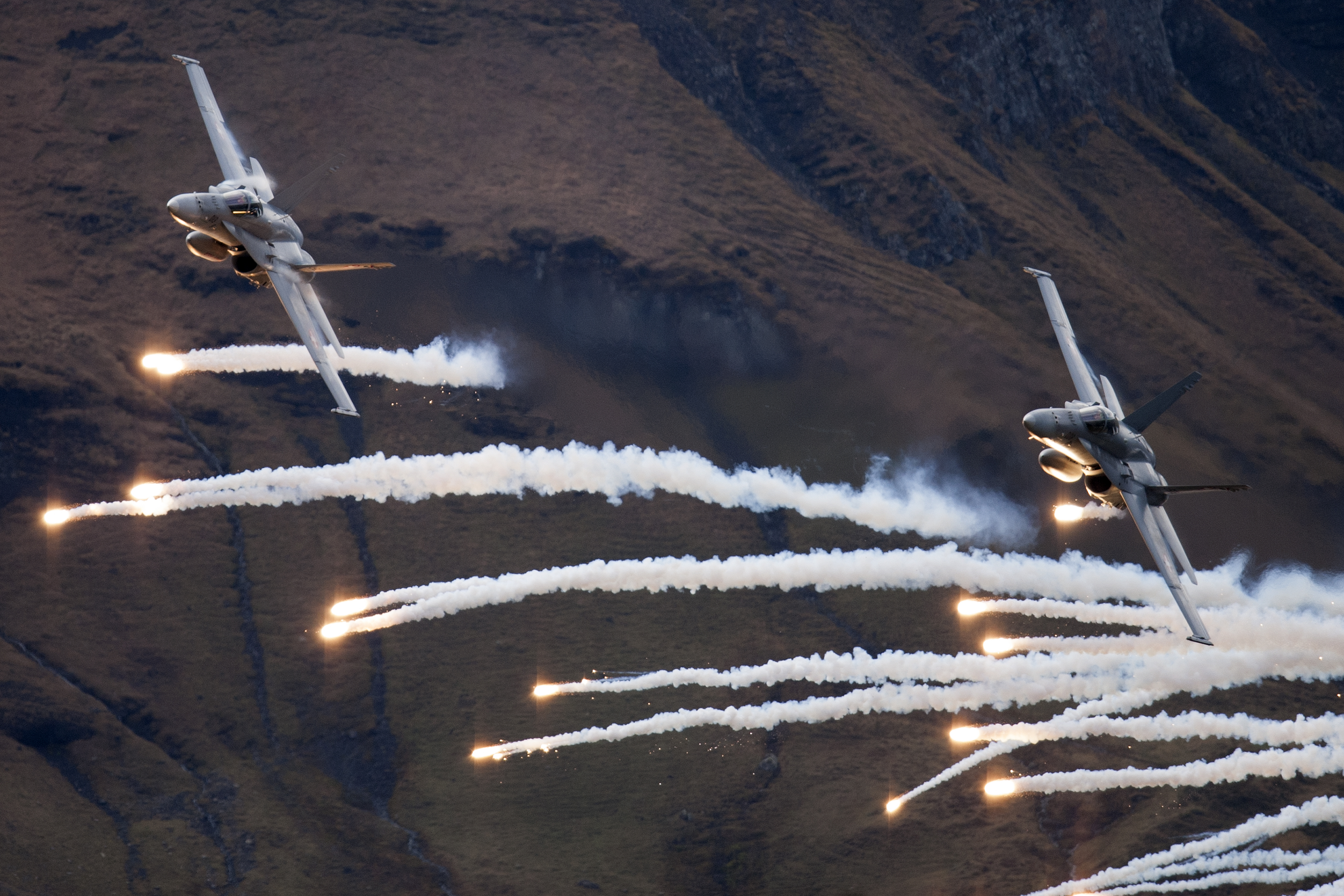 A pair of F/A-18C Hornets of the Swiss Air Force releasing decoy flares at the 2012 Axalp Swiss Air Force live fire event.